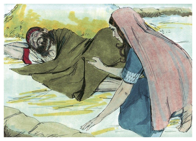 Biblical illustration of Book of Ruth Chapter 3